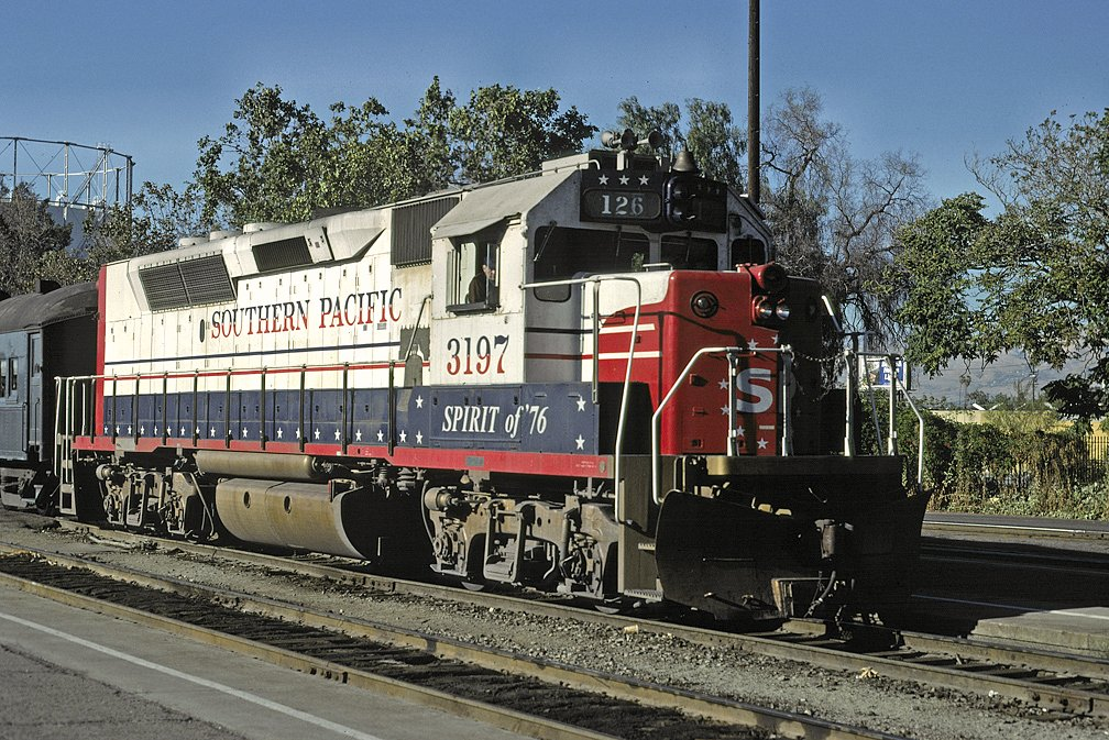 Southern Pacific GP40P-2 #3197 arriving in San Jose with Peninsula Commute train #126 in March 1985